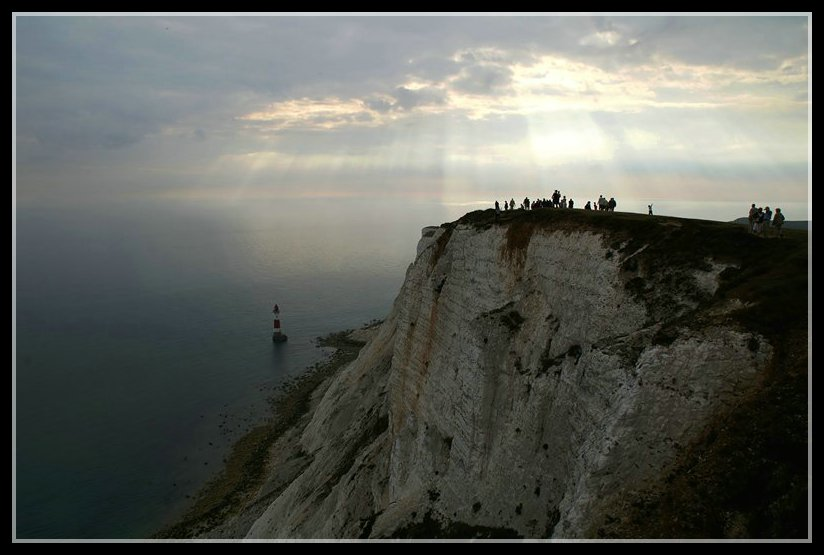 The cliffs and lighthouse at the Beachy Head in Eastbourne, England, UK Image copyright 2007 by Pieter Blommaert User:(WT-shared) Pieter, licensed under the CC-SA 1.0 (or later).